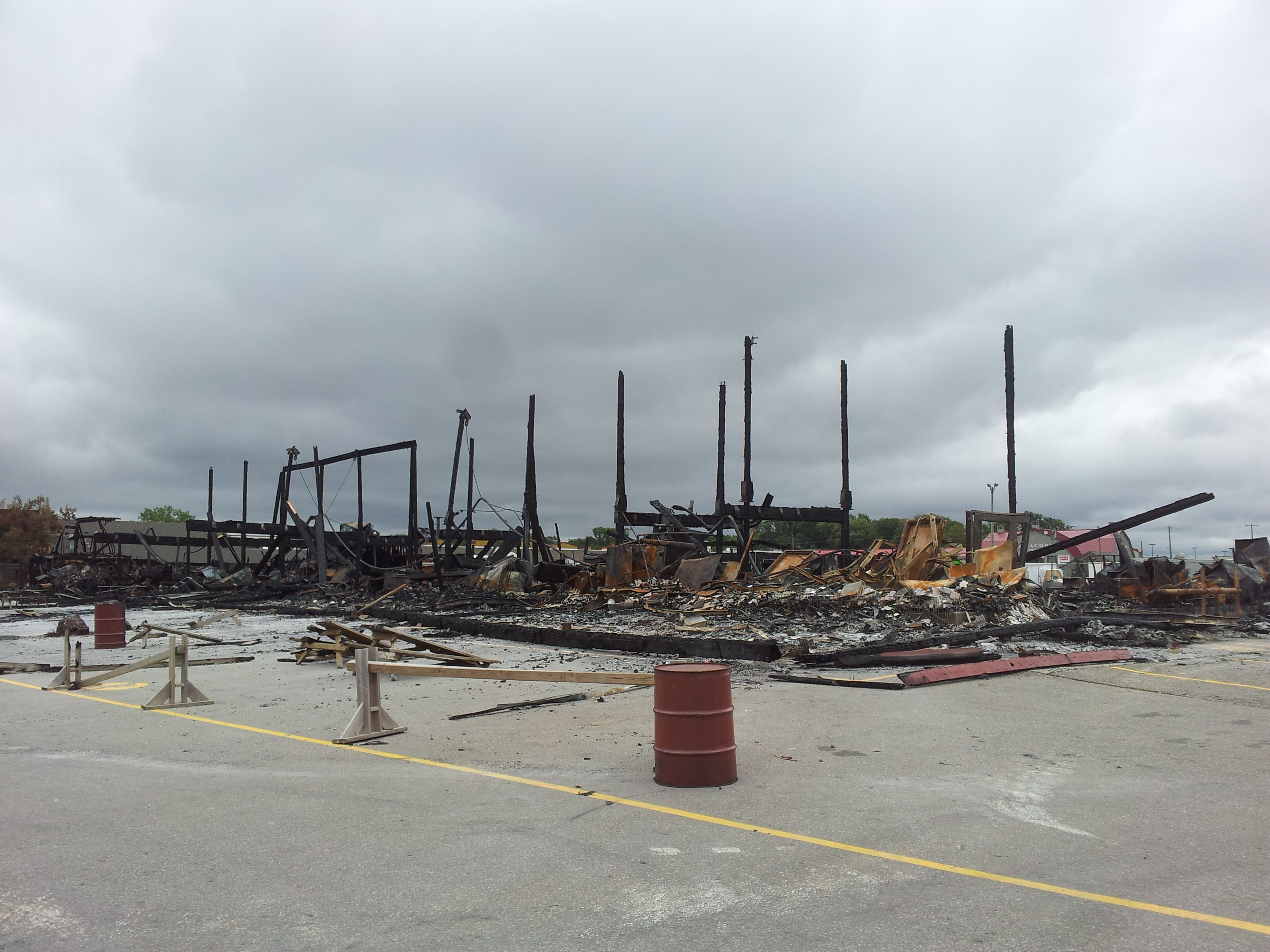 Snapshot of the devastation after the fire on Sept. 2, 2013. Photo taken on Sept. 3rd.